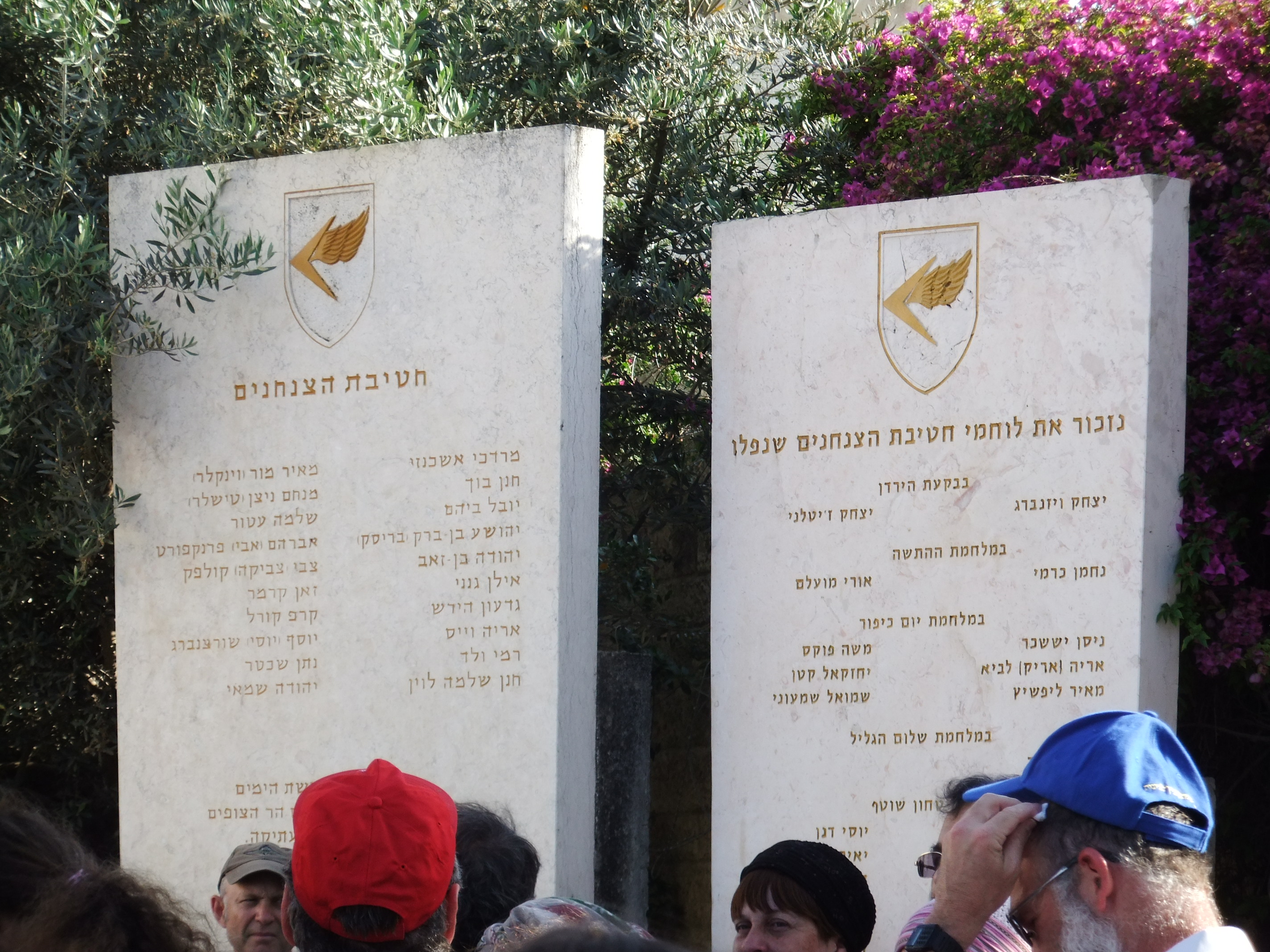 Monument for paratroopers brigade 55 (the bigade commandment) behind Rockfeller museum